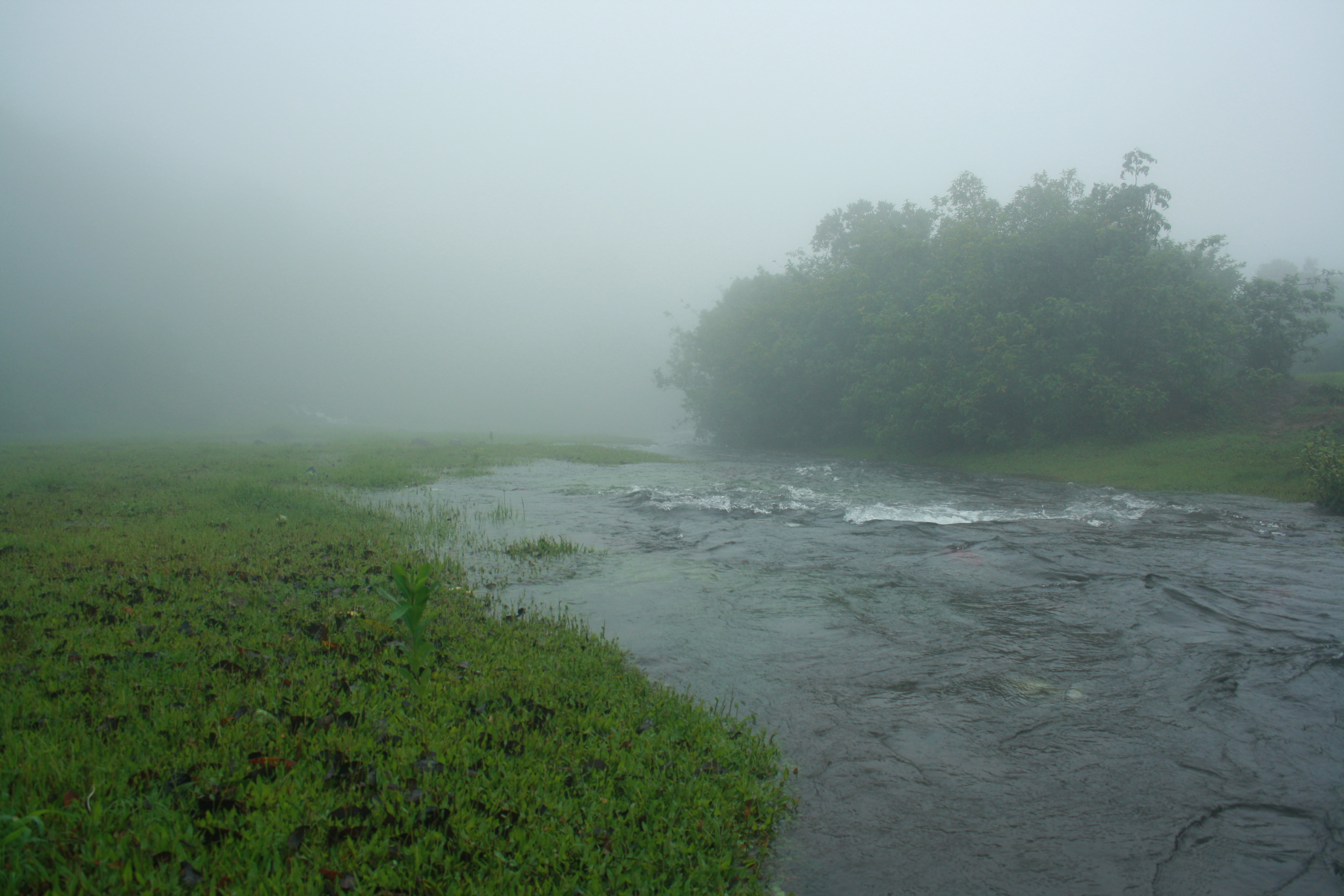 Rapid currents of the Hiranyakeshi river near its 'ugam'